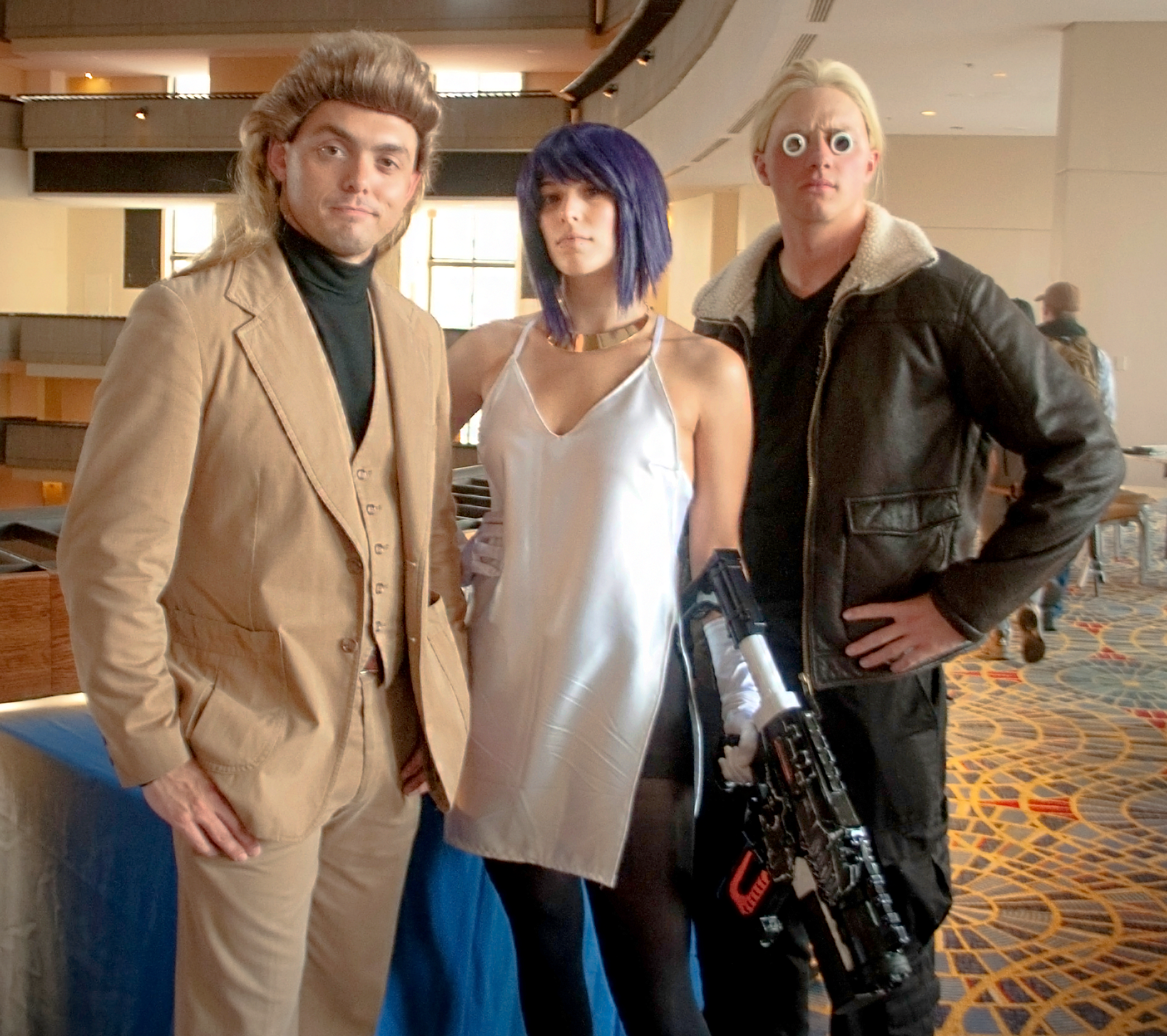 Ghost in the Shell cosplayers at Dragon Con 2013.